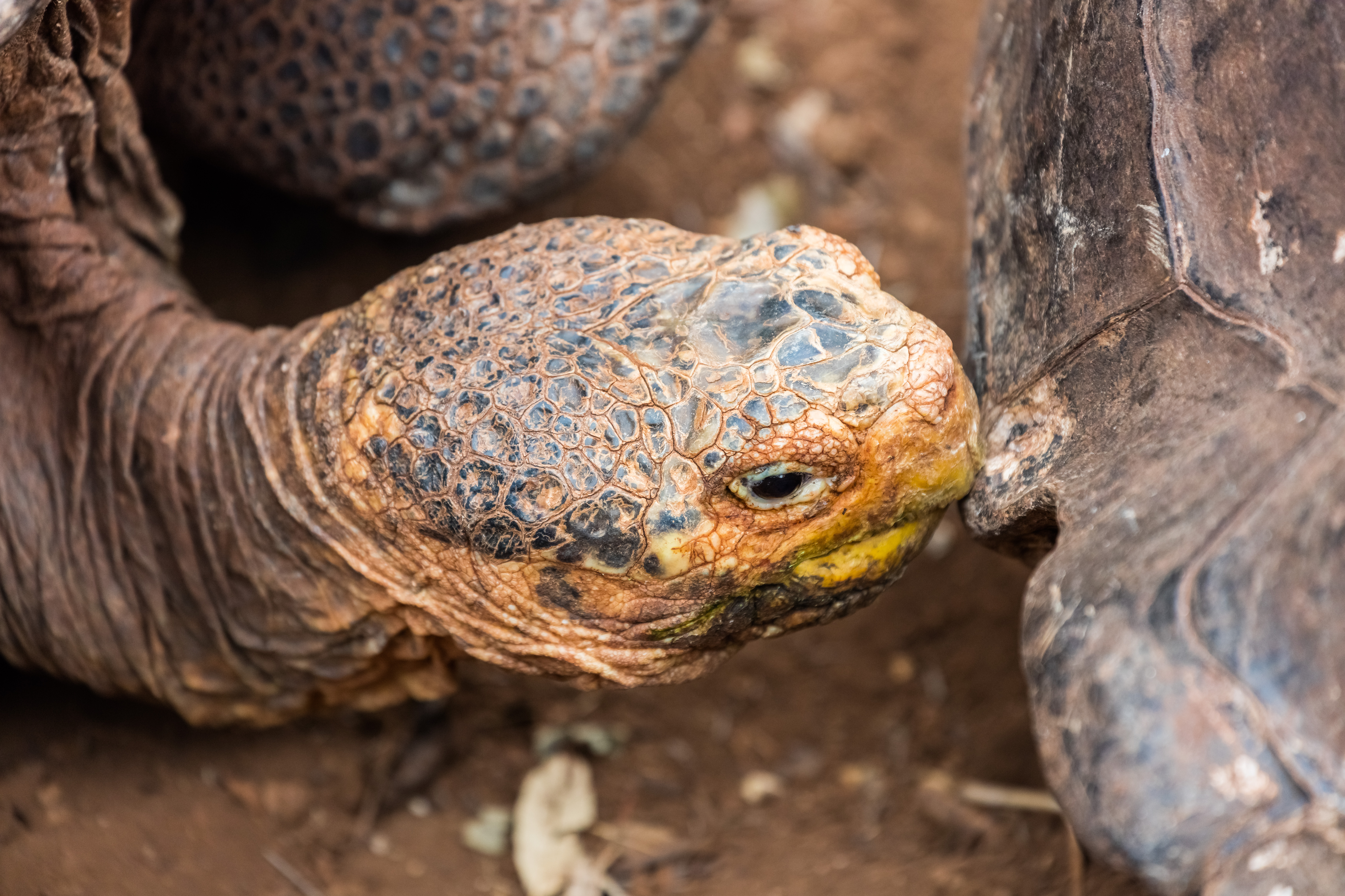 San Cristobal Island Galapagos tortoise (Chelonoidis chathamensis), Santa Cruz Island, Galapagos Islands, Ecuador